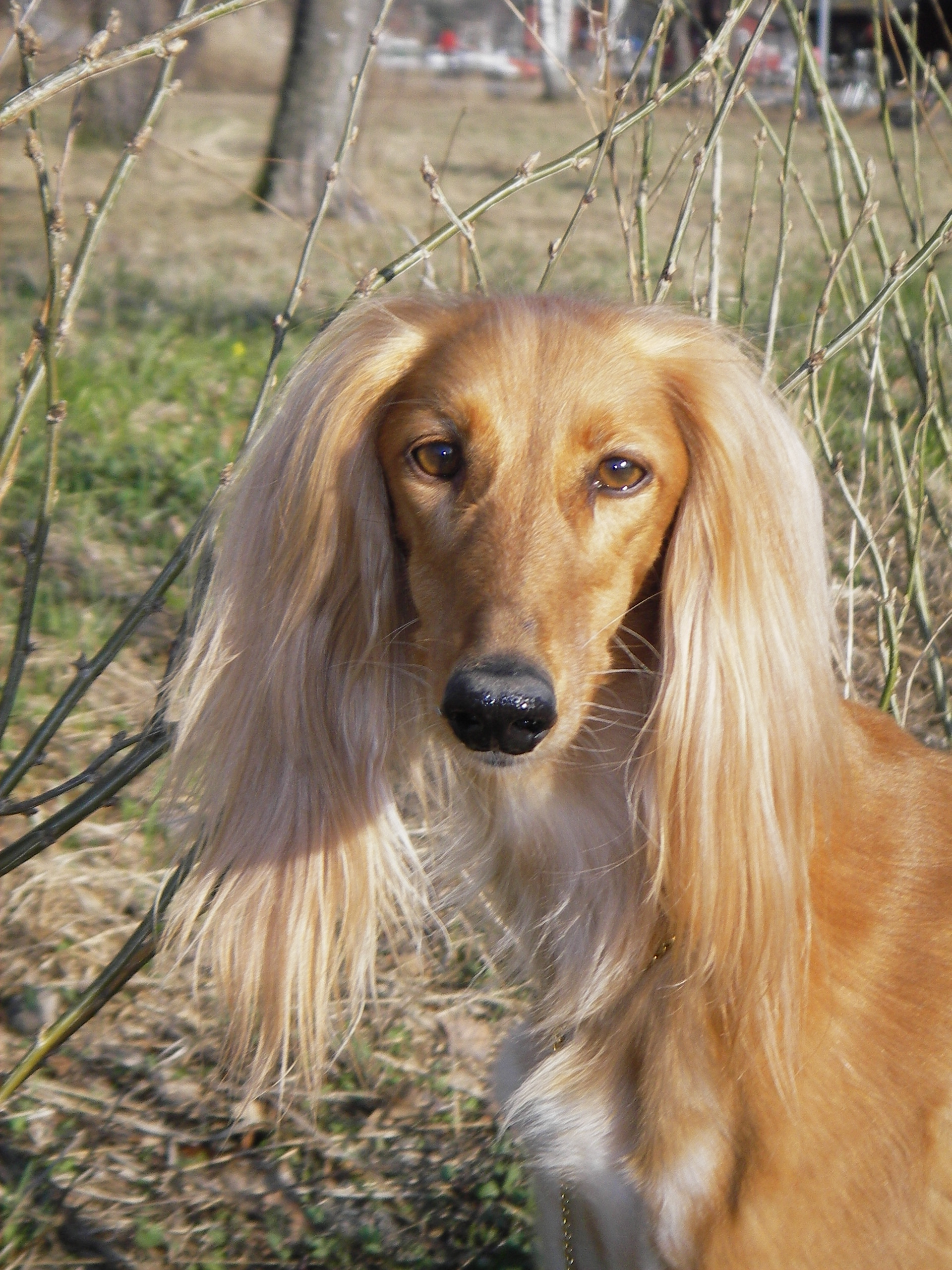 Red Saluki female with long ear feathering. Photo by Jonny Hedberg 2006.